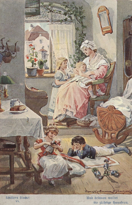 illustration of Friedrich Schiller's "Song of the Bell" (German: "Das Lied von der Glocke")